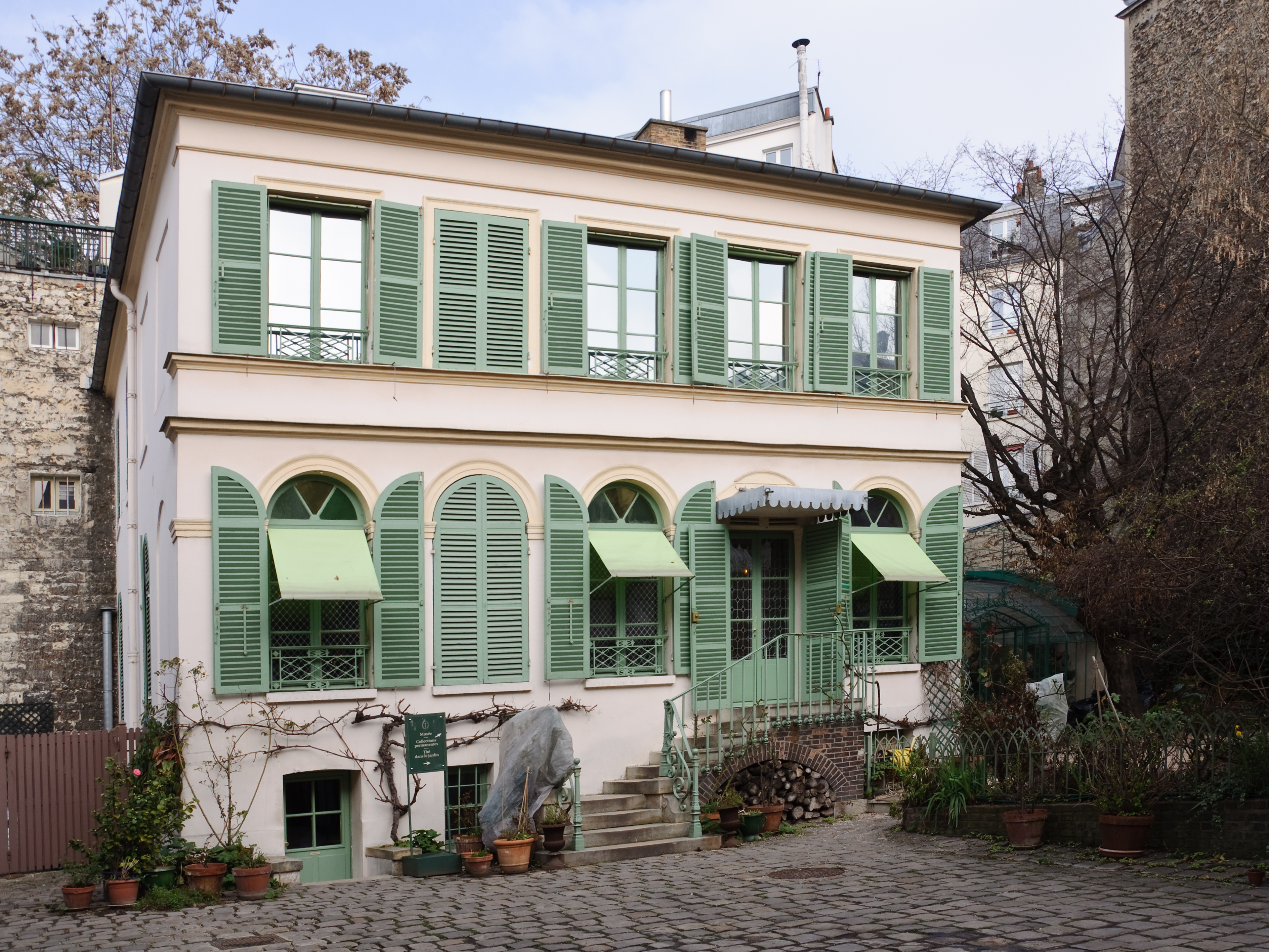 The Musée de la Vie romantique (Museum of Romantic Life), housed in the Scheffer-Renan mansion in the 9th arrondissement of Paris, France.